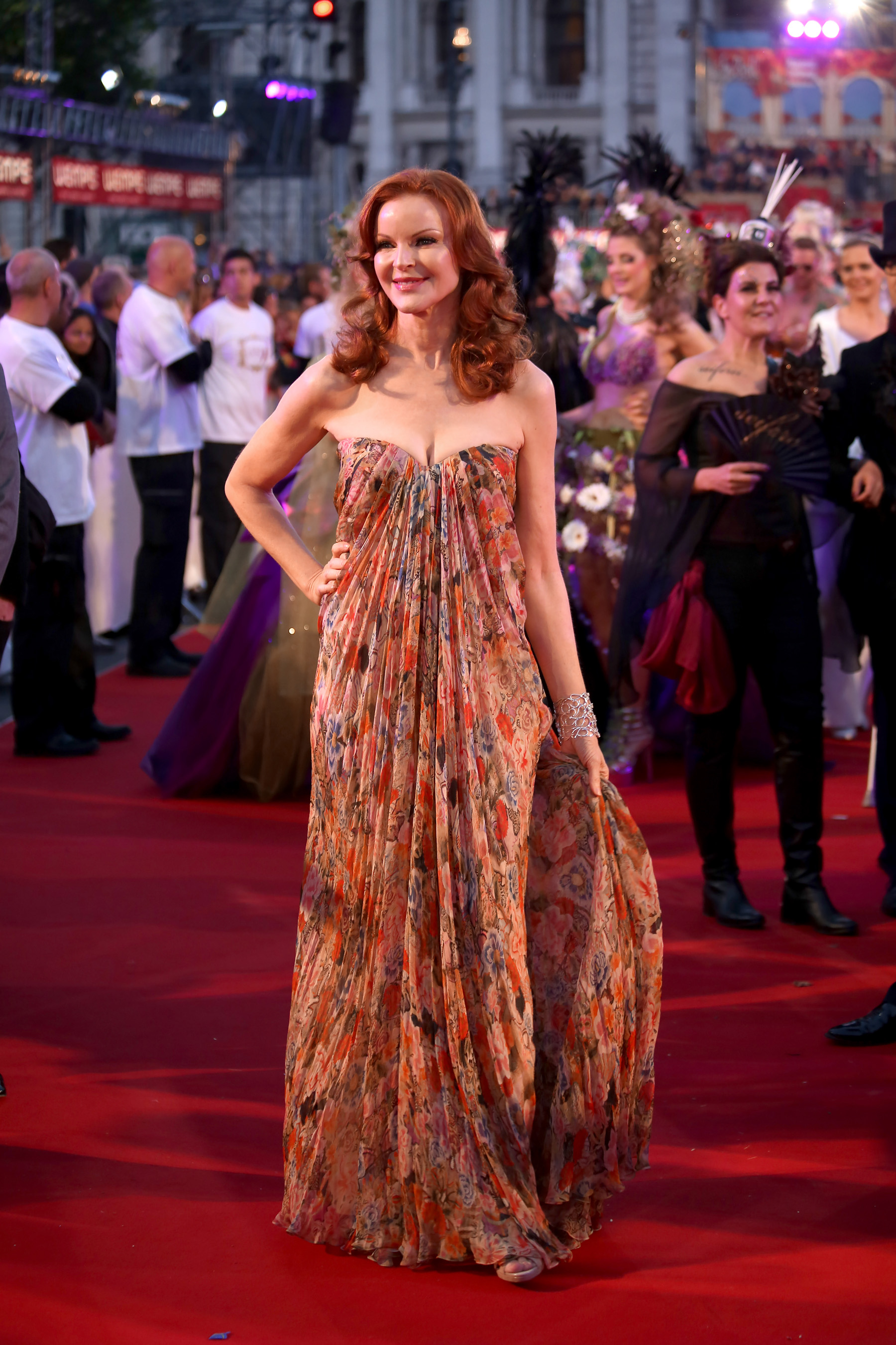 Life Ball 2014: Marcia Cross on the red carpet on the square in front of the Rathaus (Town Hall) of Vienna, Austria.